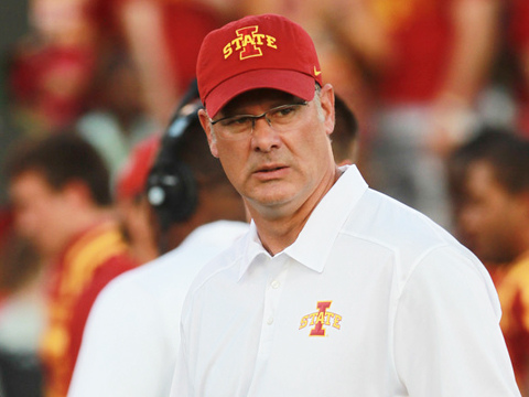 Iowa State University Football coach Paul Rhoads during a game wtih University of Northern Iowa on September 5, 2013.